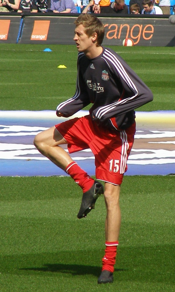 Image of a Daddy-Long-Legs, Liverpool FC player